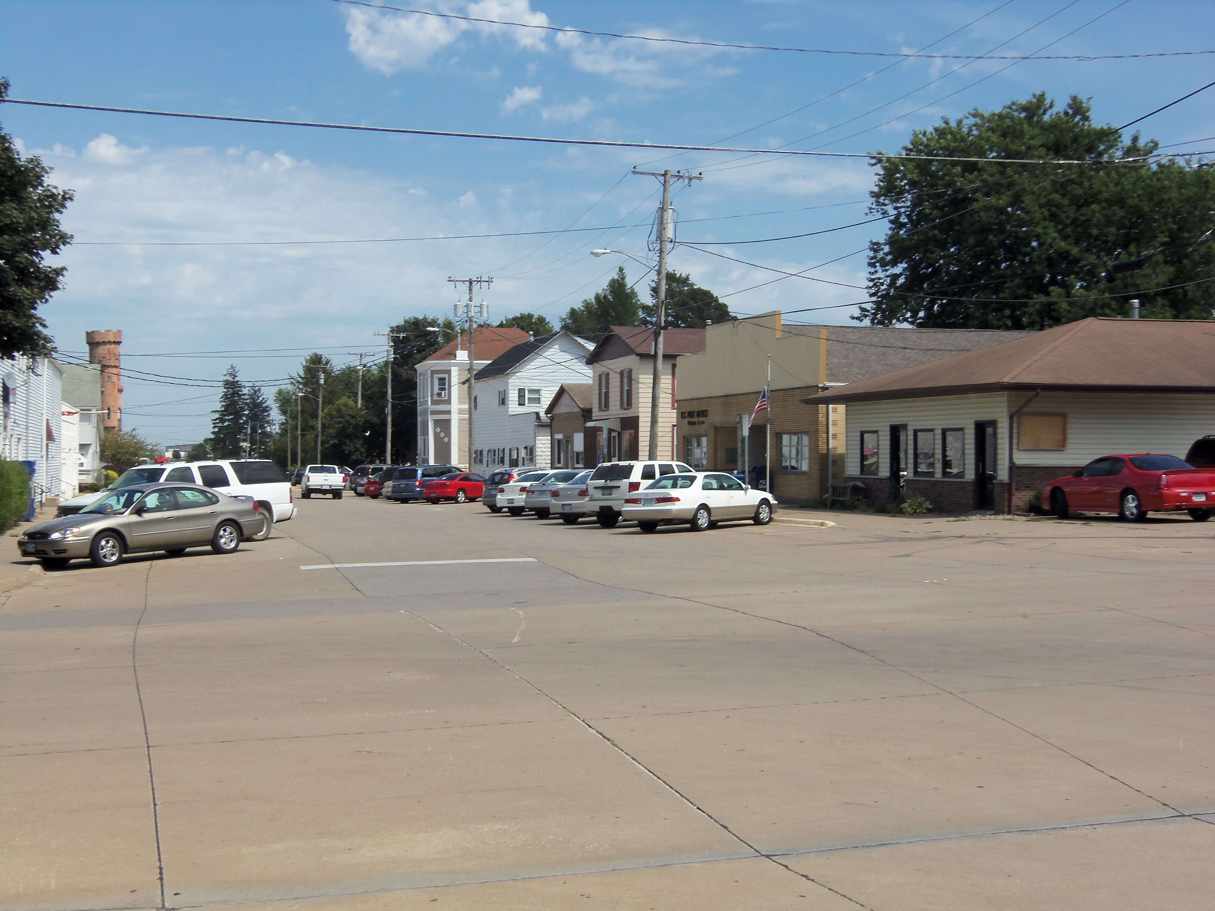 Buildings along E. Bryant Street in Walcott, Iowa.